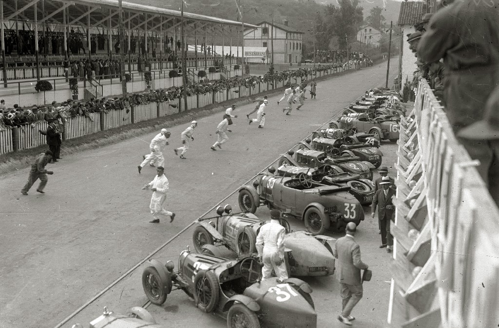 Start Lasarte GP Guipúzcoa / GP Spain (Be careful, it NOT the Grand-Prix-Race GP of San-Sebastian!!!)